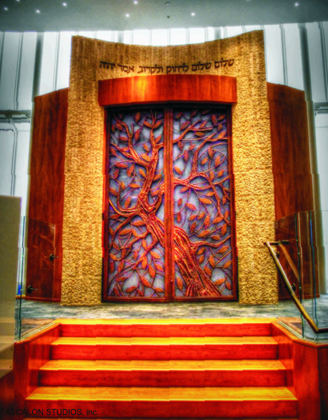 The Aron Kodesh (Torah ark) of the new Lincoln Square Synagogue (2013), designed and executed by the American artist and designer David Ascalon of Ascalon Studios. The Torah ark, the aesthetic and spiritual focal-point of the synagogue's sanctuary, is composed of cedar of lebanon wood, Jerusalem stone, and welded bronze (in the form on an olive tree). Lincoln Square synagogue's new facility, completed in 2013, is the first Jewish temple built in New York City's Manhattan Island in 50 years. The building's architect is the firm of Cetra Ruddy of New York.